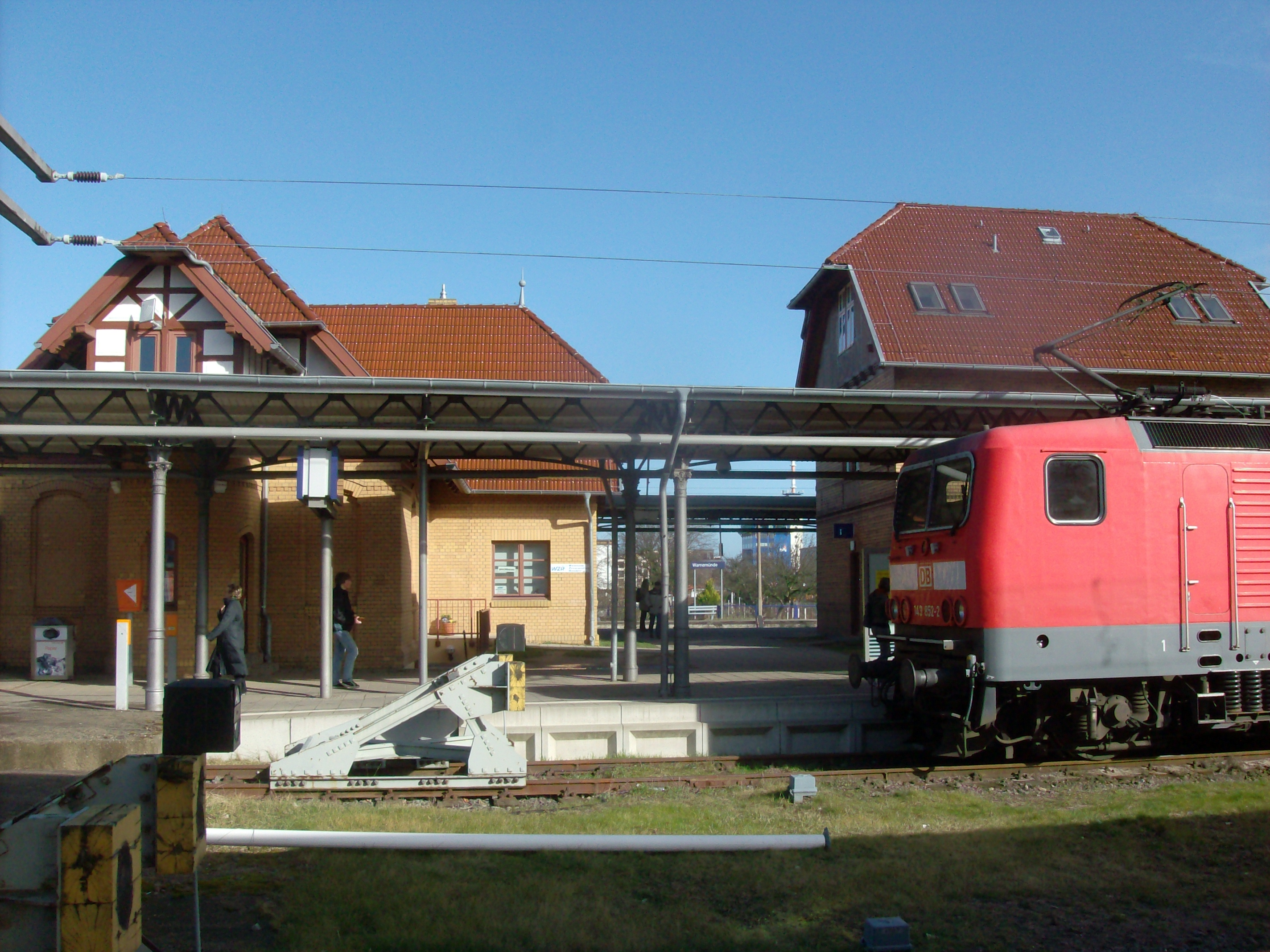 Platform of the Warnemünde Railway Station, Rostock-Warnemünde, Germany with S-Bahn train to Rostock